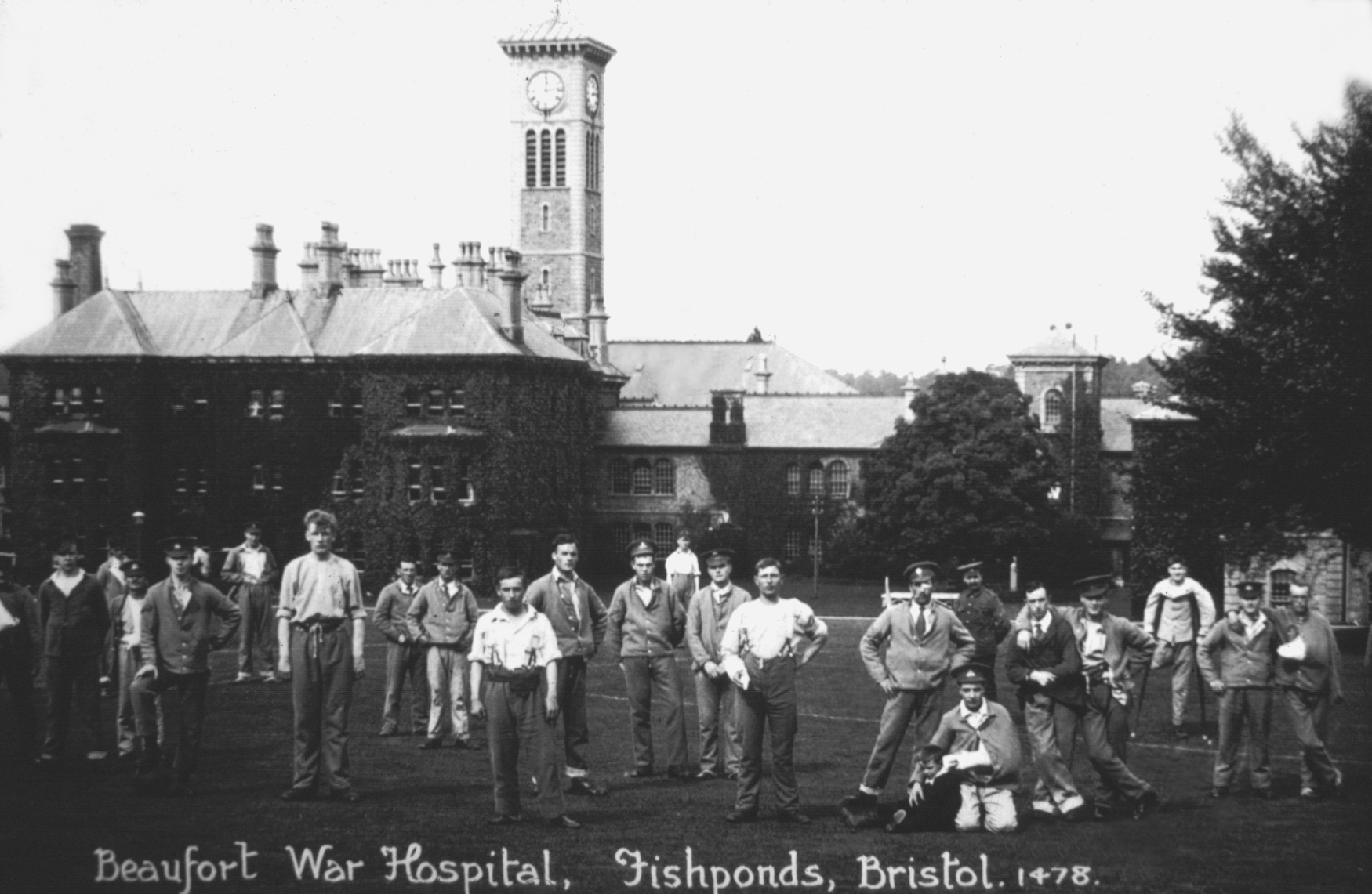 Beaufort War Hospital, Fishponds, Bristol, with patients on lawn. This is a digital scan of a postcard published while the hospital was open 1915-1919.